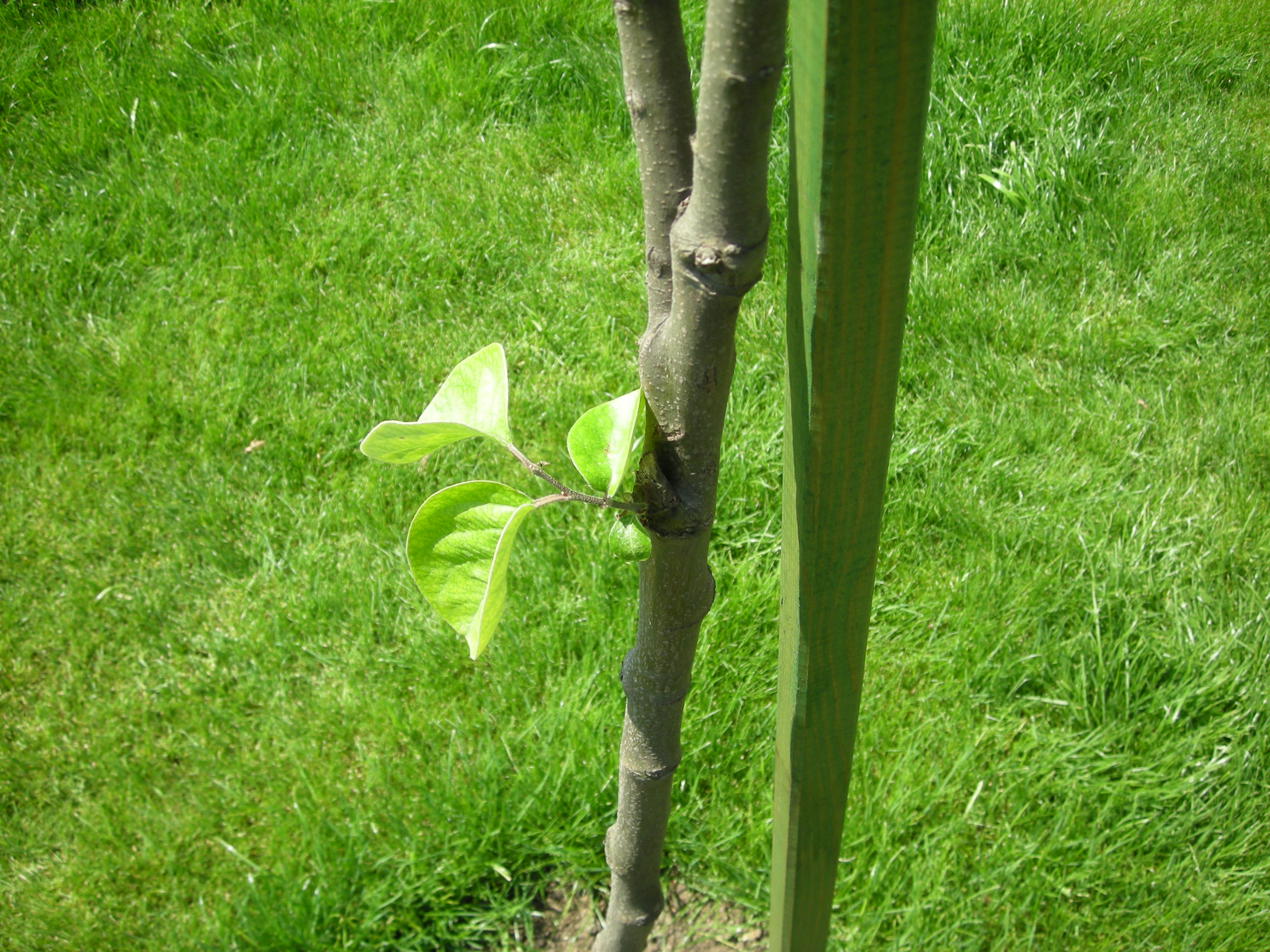 A shoot on a quince tree. Photo is taken in İstanbul.